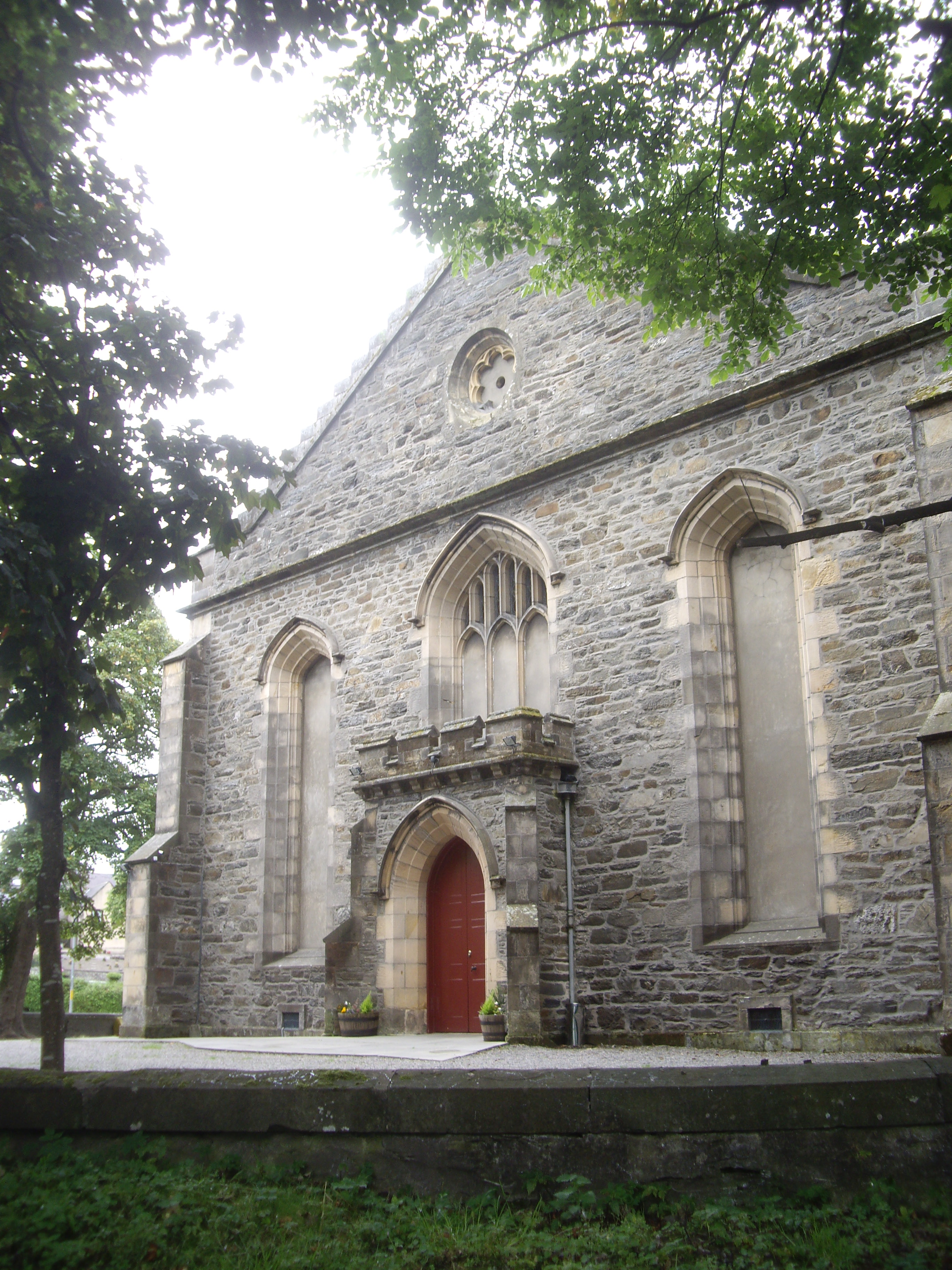 The east gable of St Rufus Church in Keith, Moray, Scotland, showing the front entrance